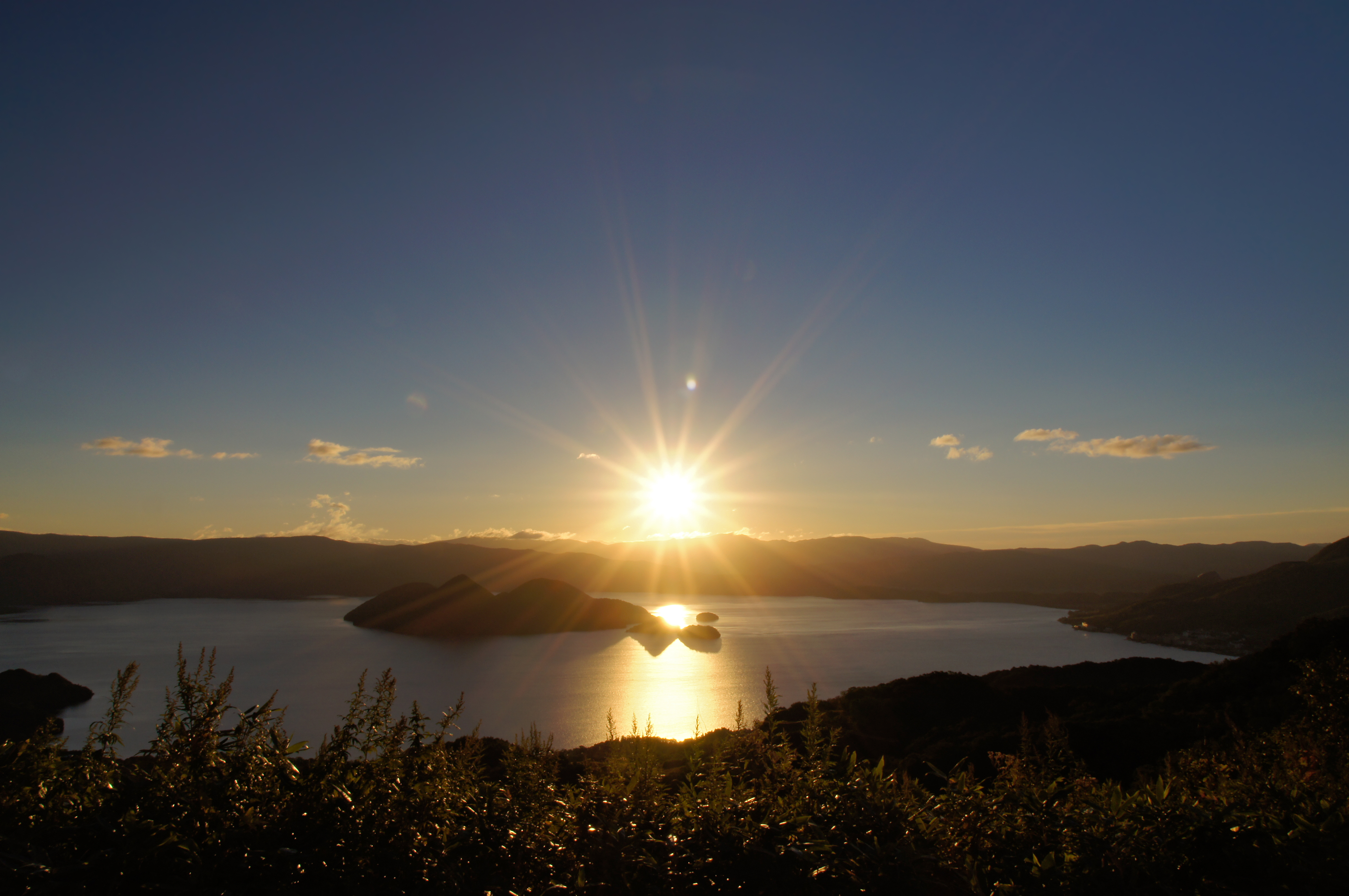 Morning sun of Lake Tōya view from The Windsor Hotel Toya Resort & Spa in Toyako, Hokkaido prefecture, Japan.